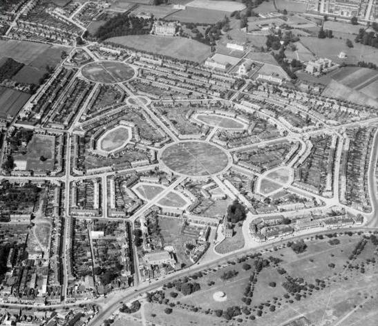 black and white aerial photograph of marino, dublin 3